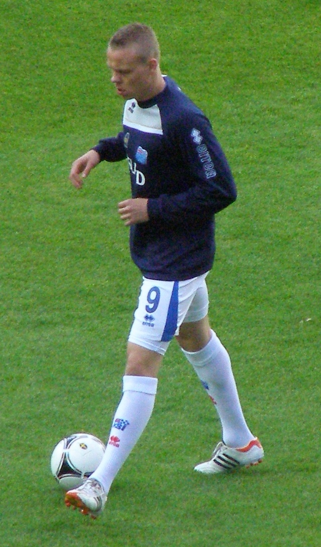 Gothenburg - Gamla Ullevi - Sweden-Iceland friendly - Kolbeinn Sigþórsson